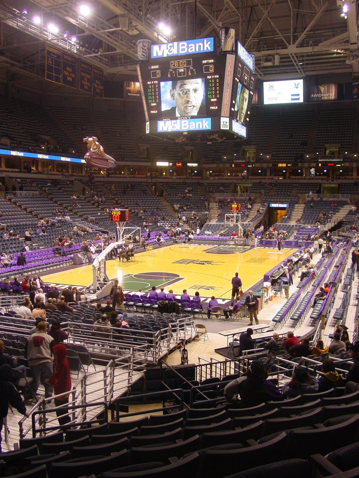 A picture I, Jeramey Jannene, took of the Bradley Center before a game Milwaukee Bucks game vs the Toronto Raptors. The game occurred on February 25th, en:2005. The Bucks would unfortunately go on to lose after trailing all game.